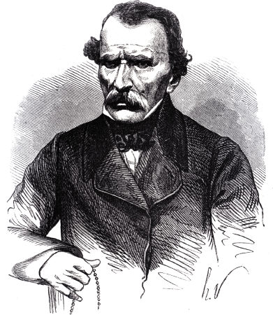 Andreas Metaxas